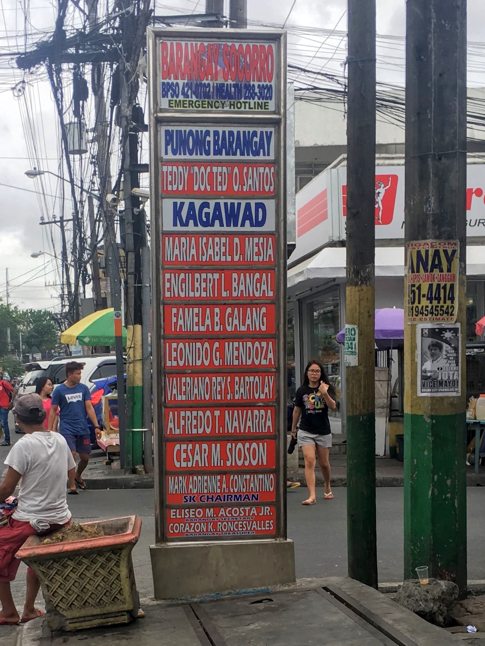 Barangay Officials Sign Board